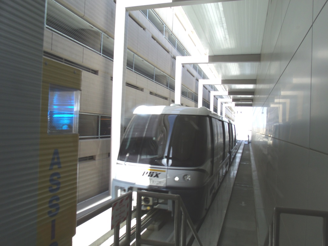 Phoenix Sky Train